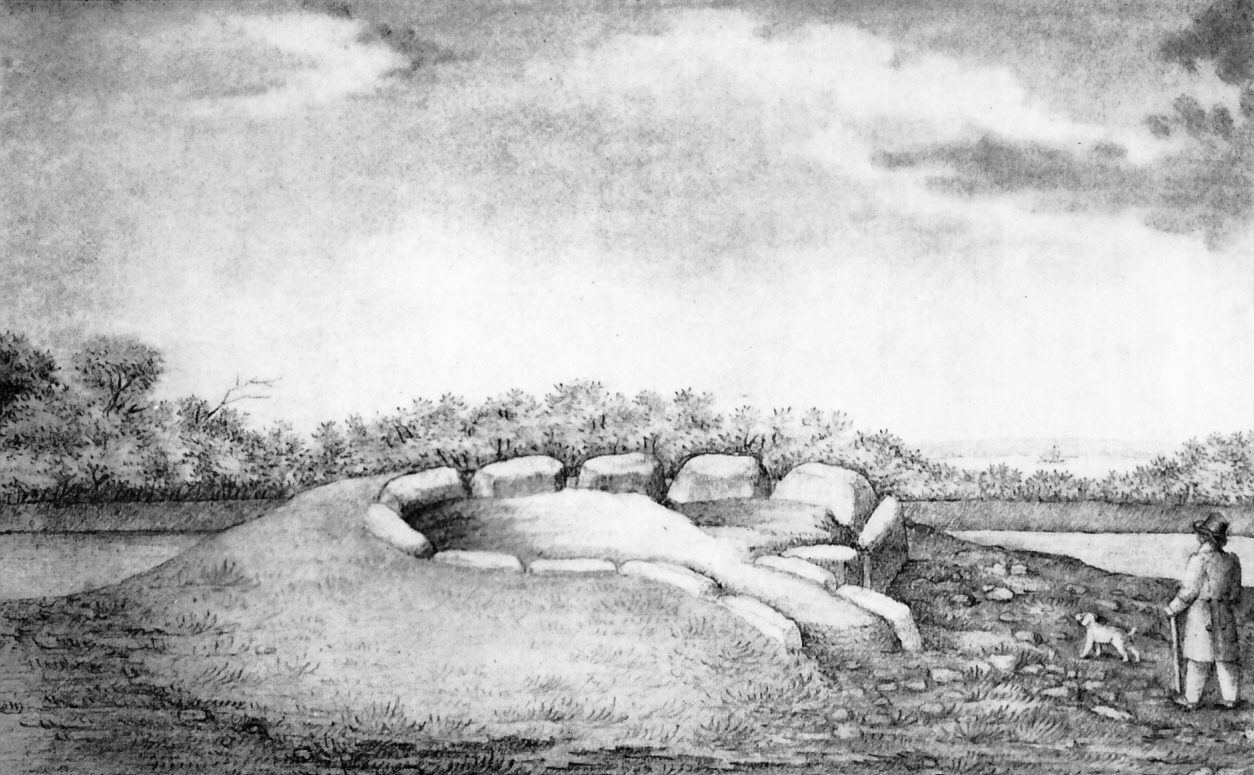 Drawing of the Dolmen near Ohrfeld.